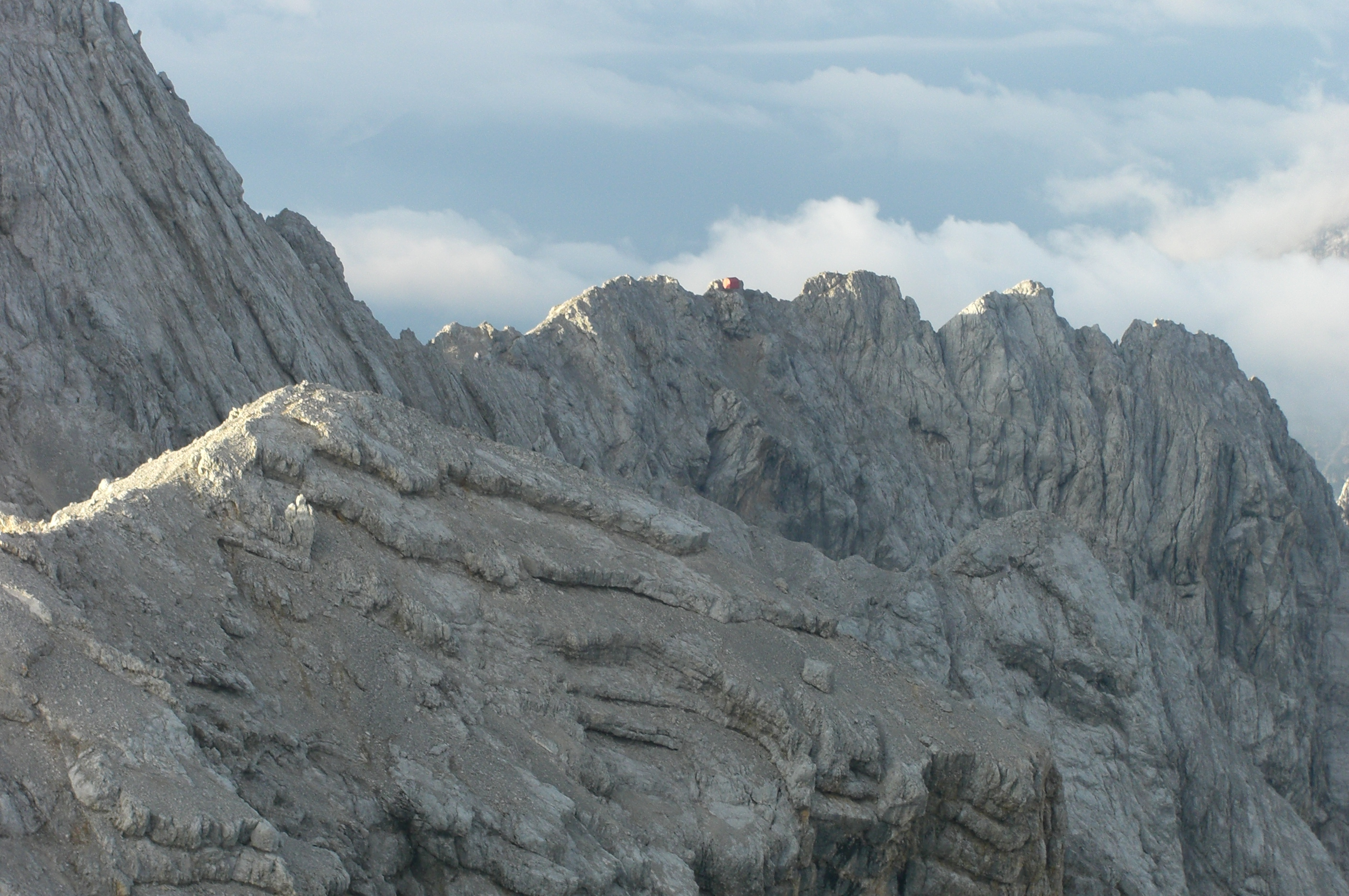 Schüsselkar bivouac (2555 m) seen from N (from Partenkirchner Dreitorspitze).